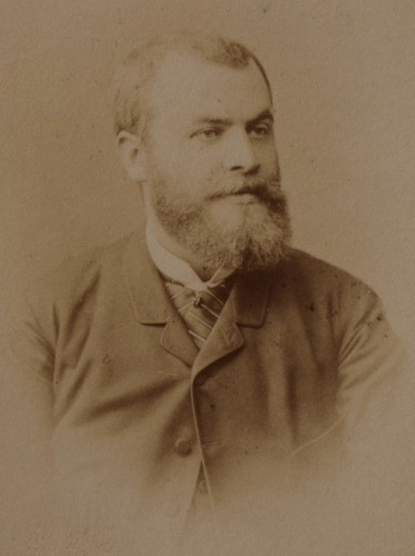 Prof. Georgi Zlatarski (1854-1909), Bulgarian geologist